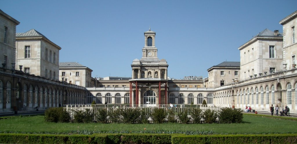 Courtyard of the hospital with a chapel in the background in 10. Arrondissement of Paris / France / EU.